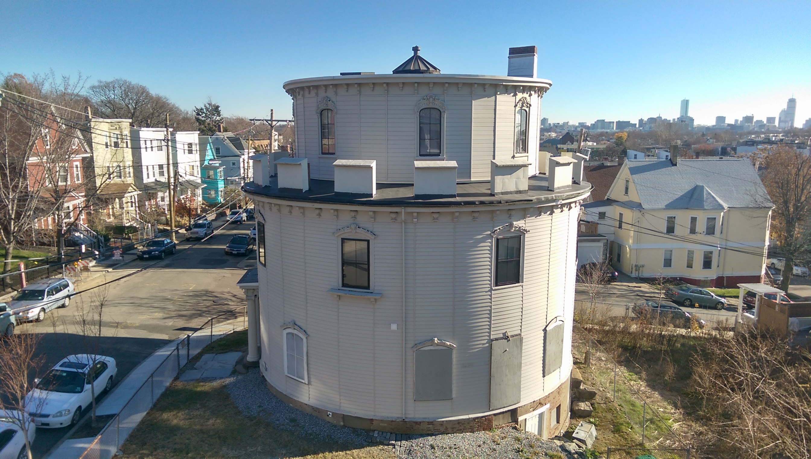 Round House seen from the third floor of 40 Atherton St. in Dec 2015